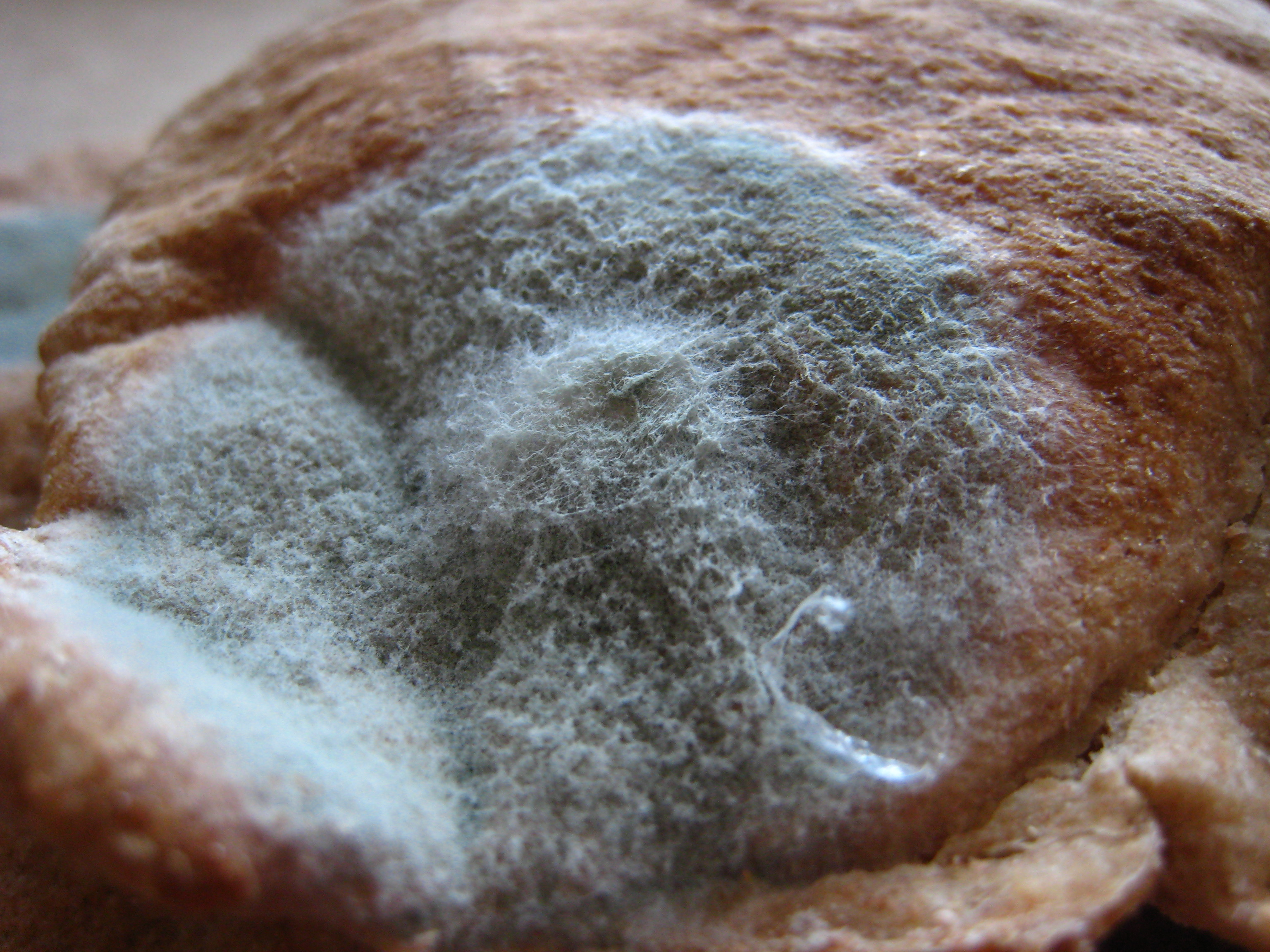 Grey-green mold growing on pita bread.